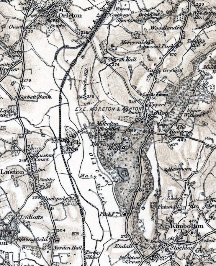 1899 Ordnance Survey map of Eye, Moreton and Ashton, Herefordshire, England in OS Map Sheet 181 - Ludlow (Hills). Reproduced with the permission of the National Library of Scotland.[1]